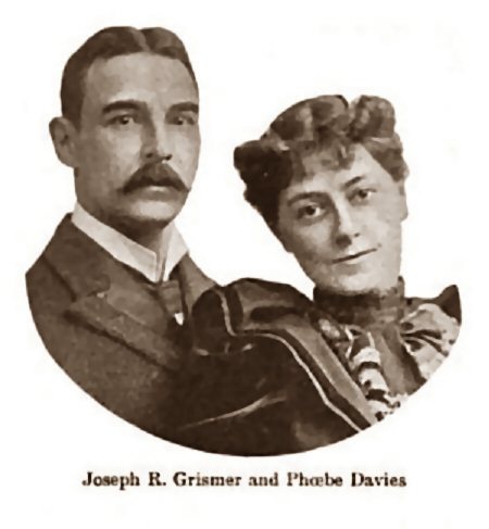 Joseph R. Grismer and Phoebe Davies